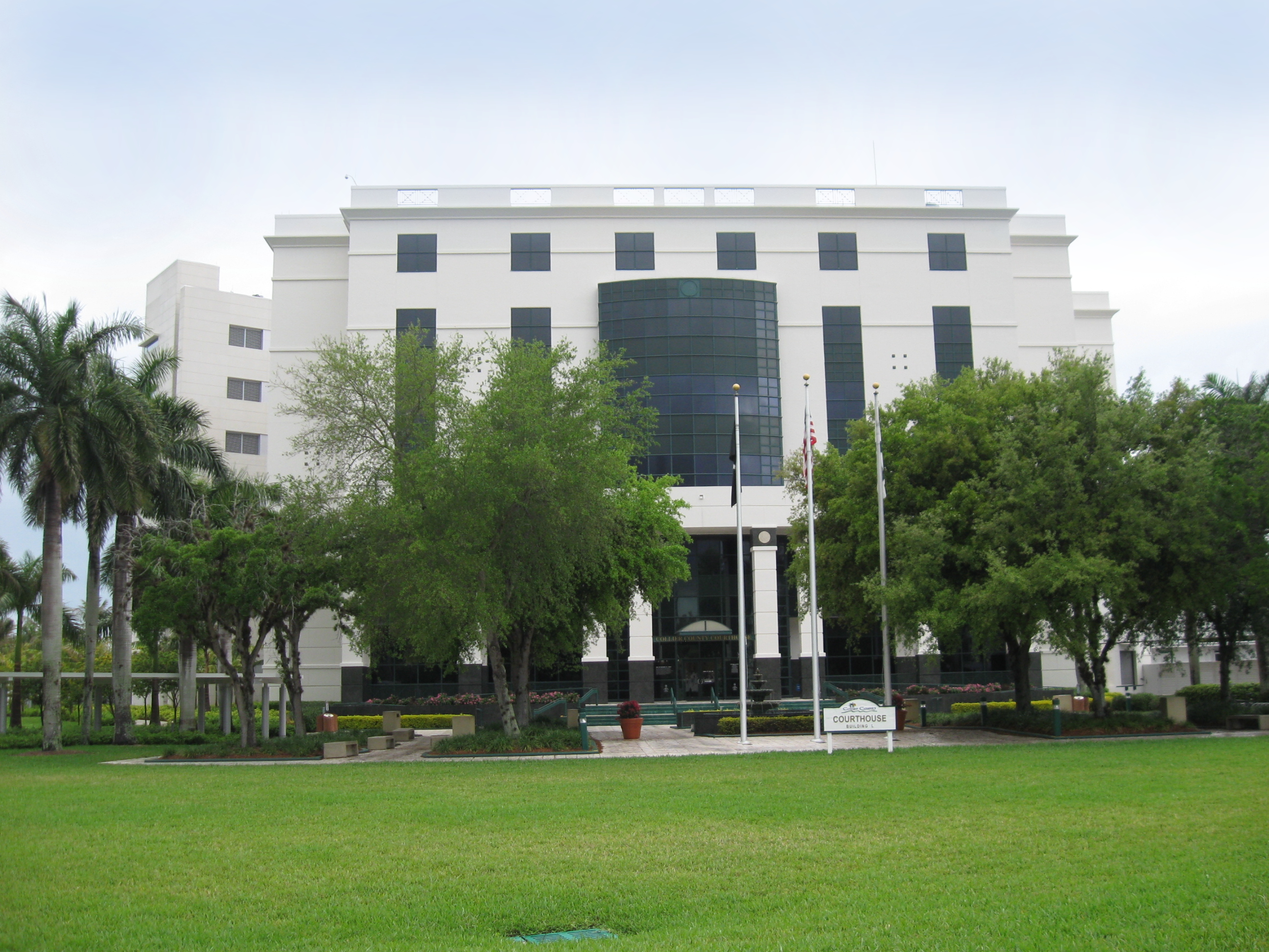 Courthouse, Collier County, Naples, FL Judicial Building